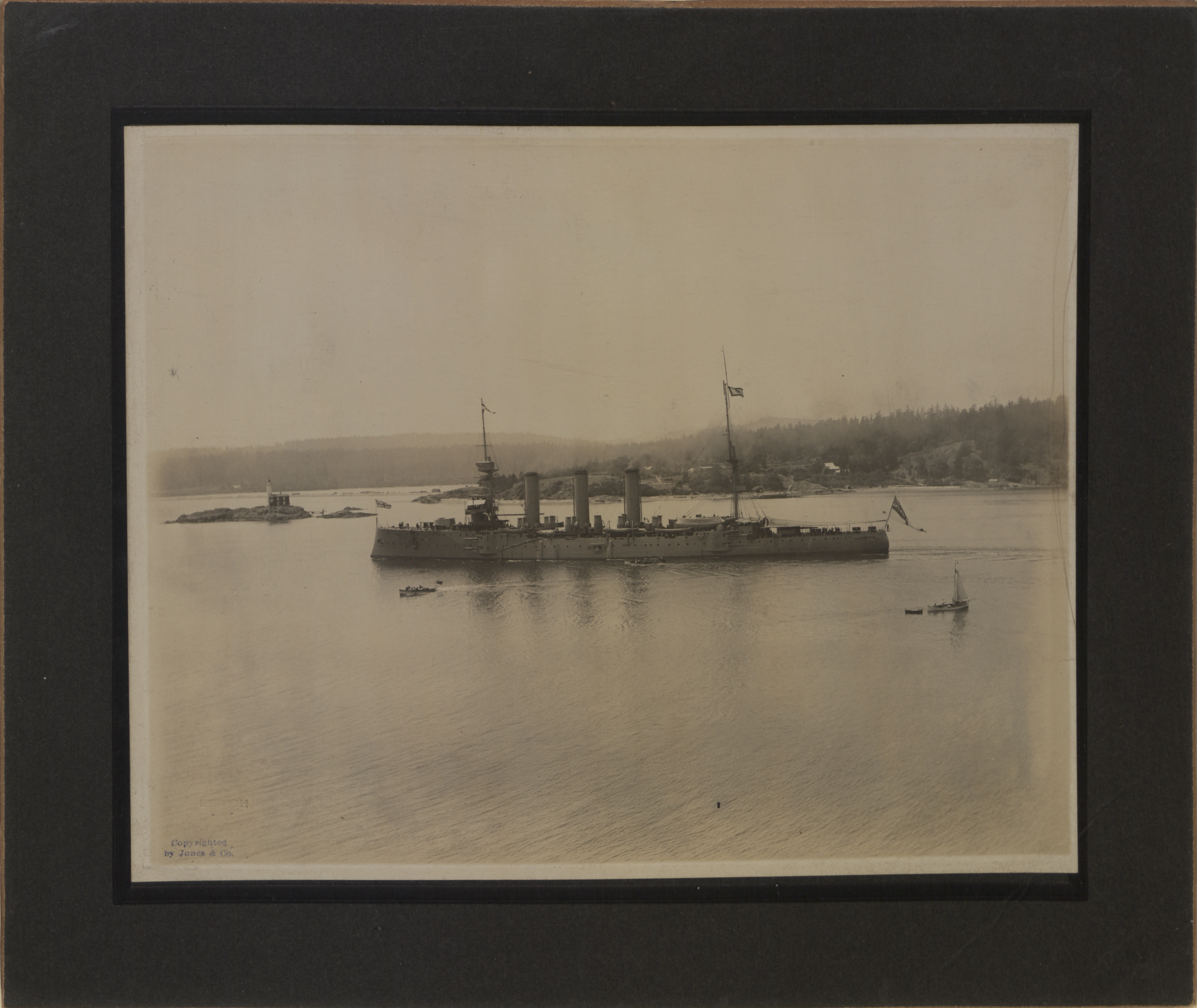 Tug-of-war.